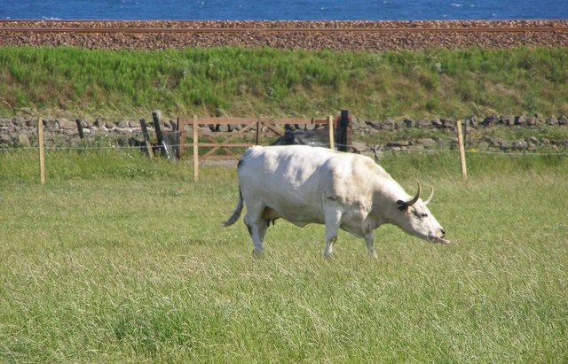 Doonies Rare Breeds Farm, with North Sea in background